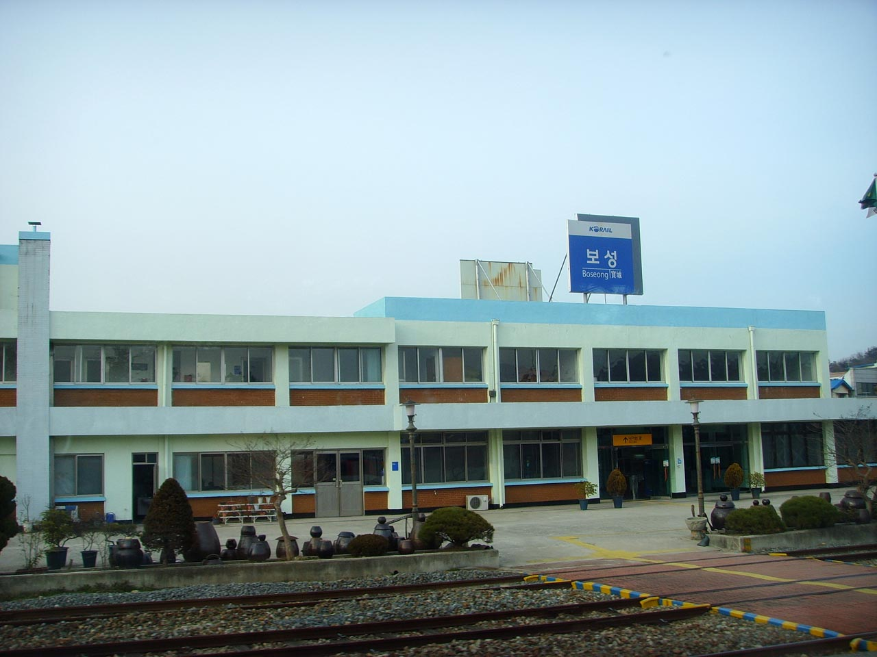 Boseong Station (Gyeongjeon Line), (Boseong-eup, Boseong-gun, Jeollanam-do, South Korea